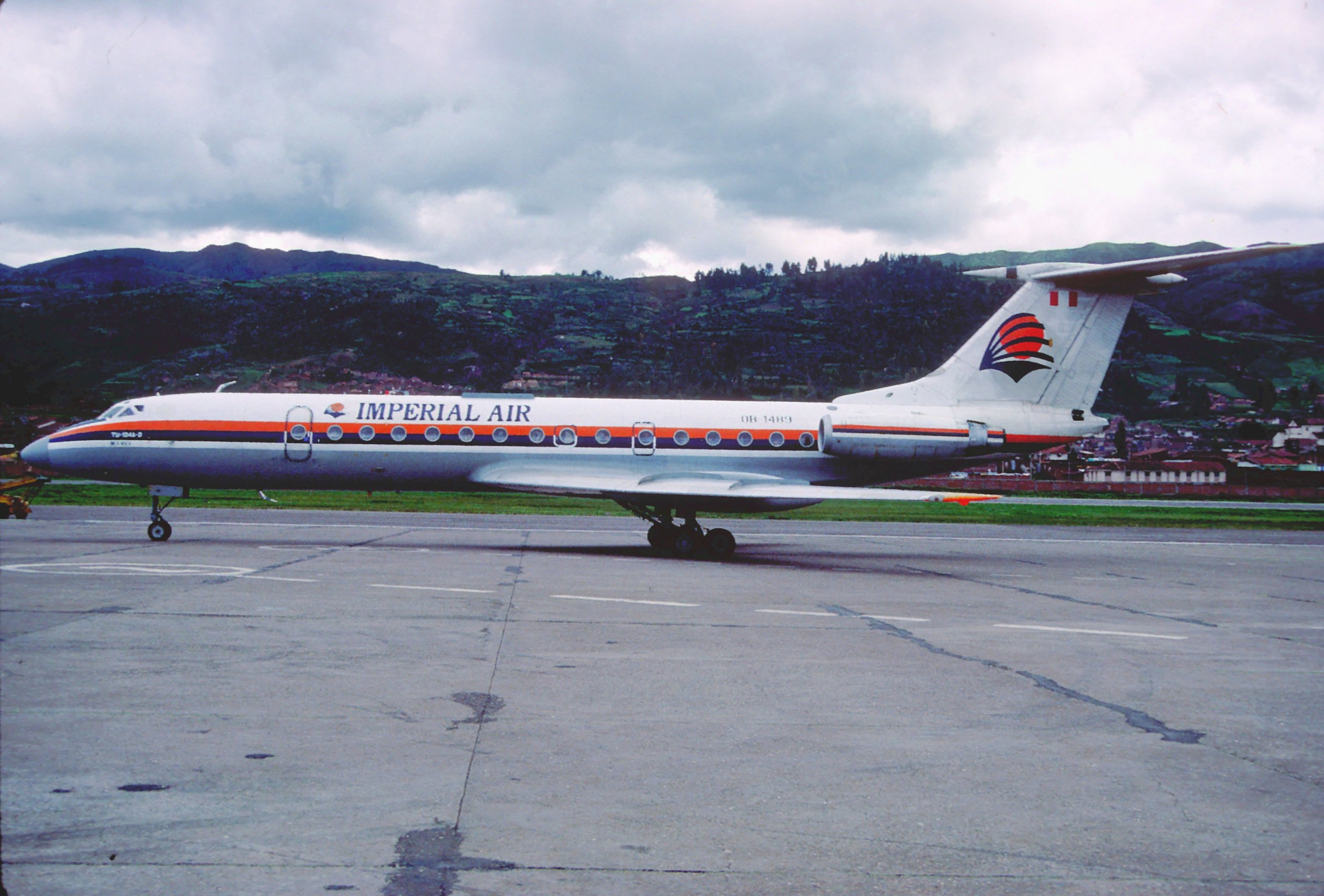 This Tupolev Tu-134A3 was built in 1971. During 1997, the win-jet was stored at Lima...